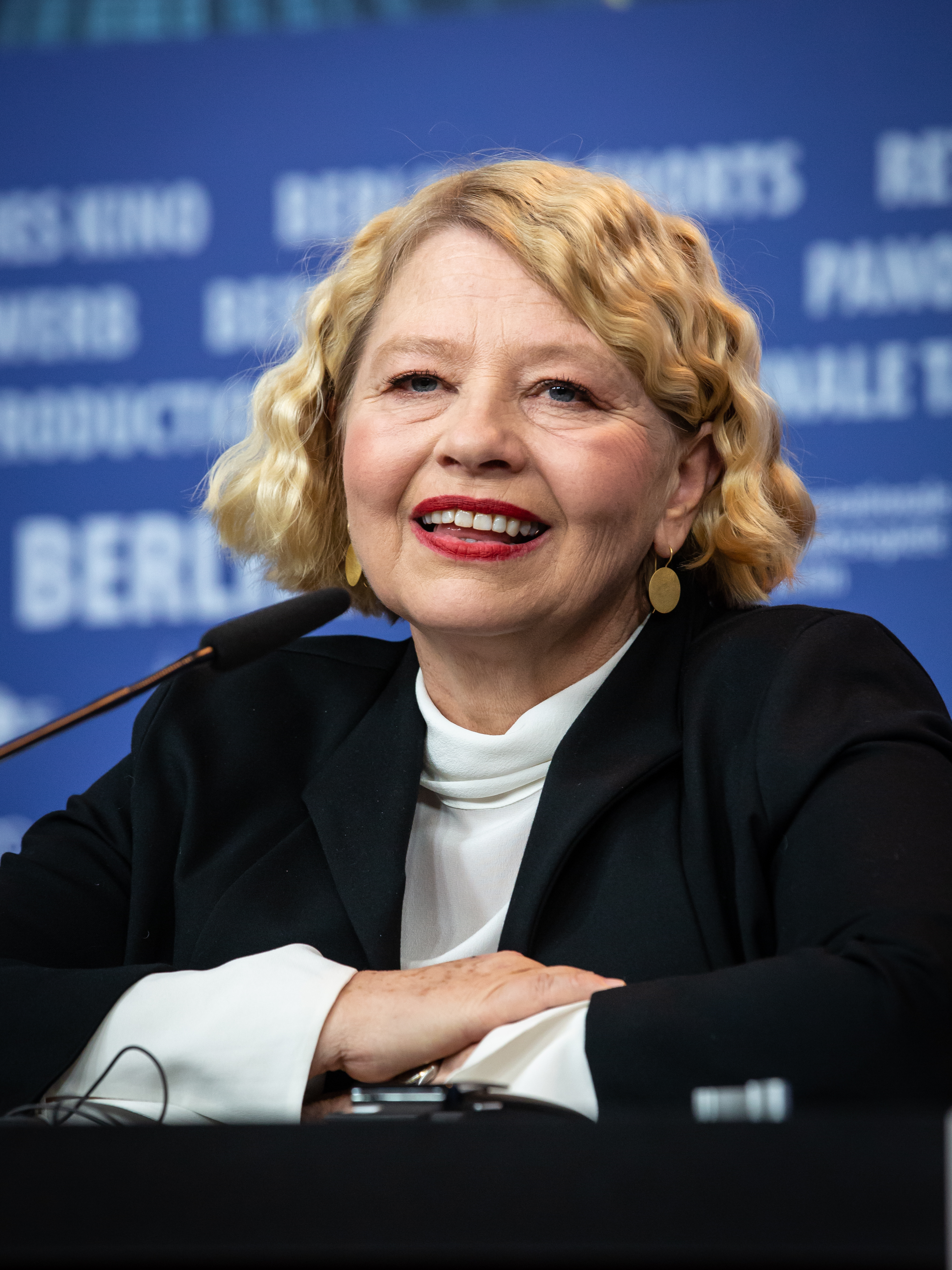 Actress Margarethe Tiesel at the Berlinale 2019